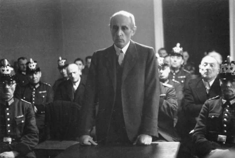 Information added by Wikimedia users.